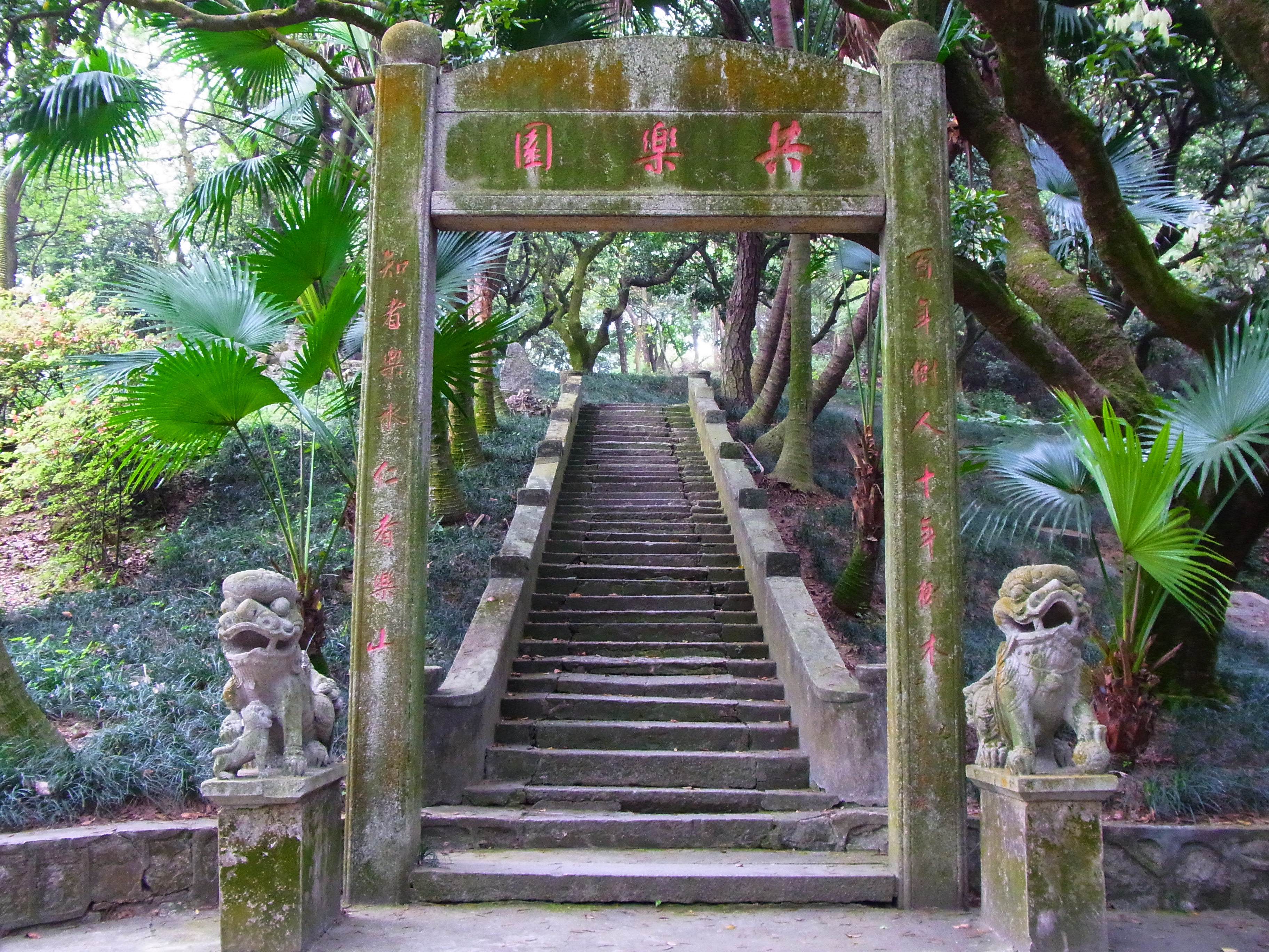 Xiangshan County, former name of the actual Zhongshan and Zhuhai municipalities area, first garden; Gongle garden.